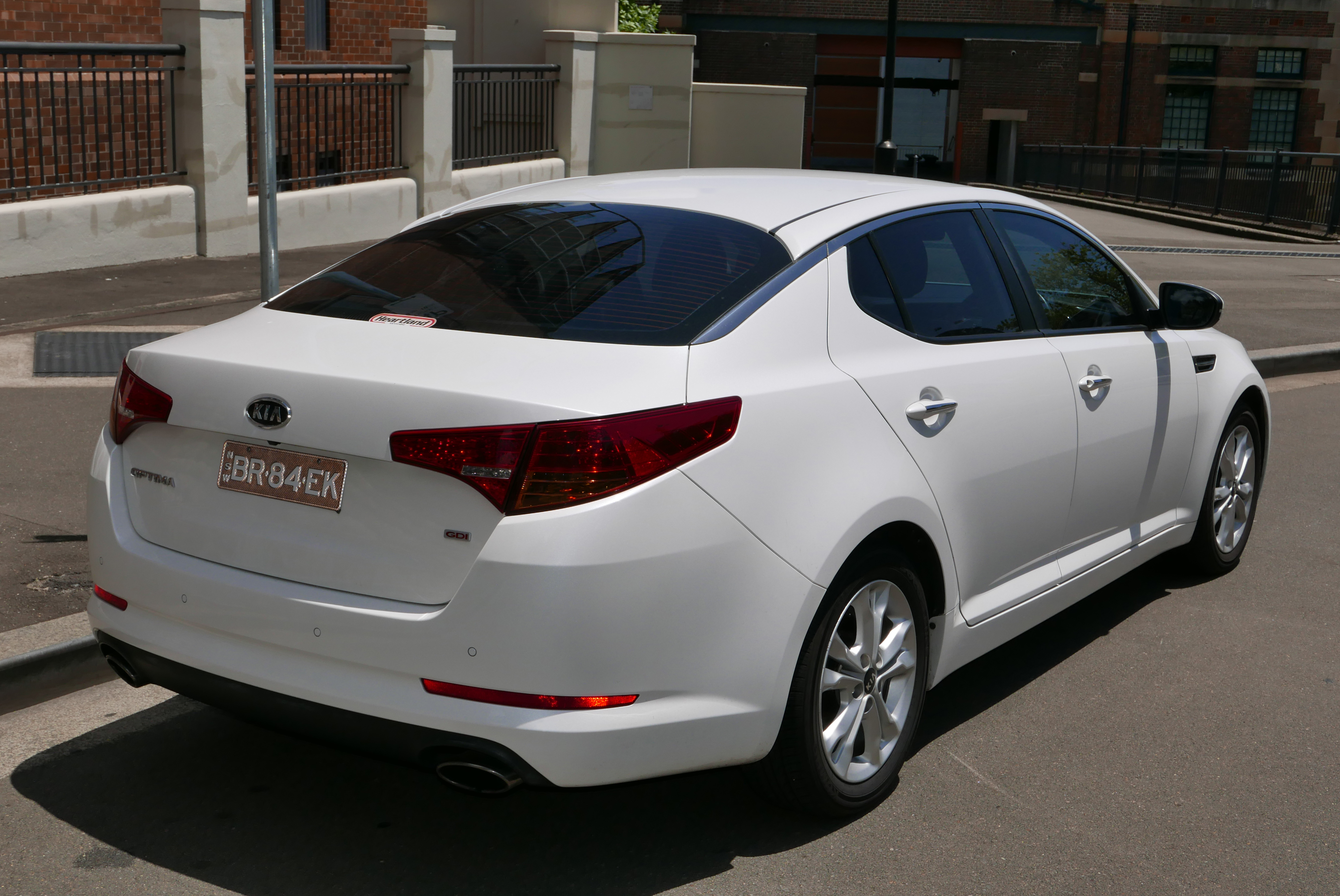 2012 Kia Optima (TF) Si sedan. Photographed in Dawes Point, New South Wales, Australia.